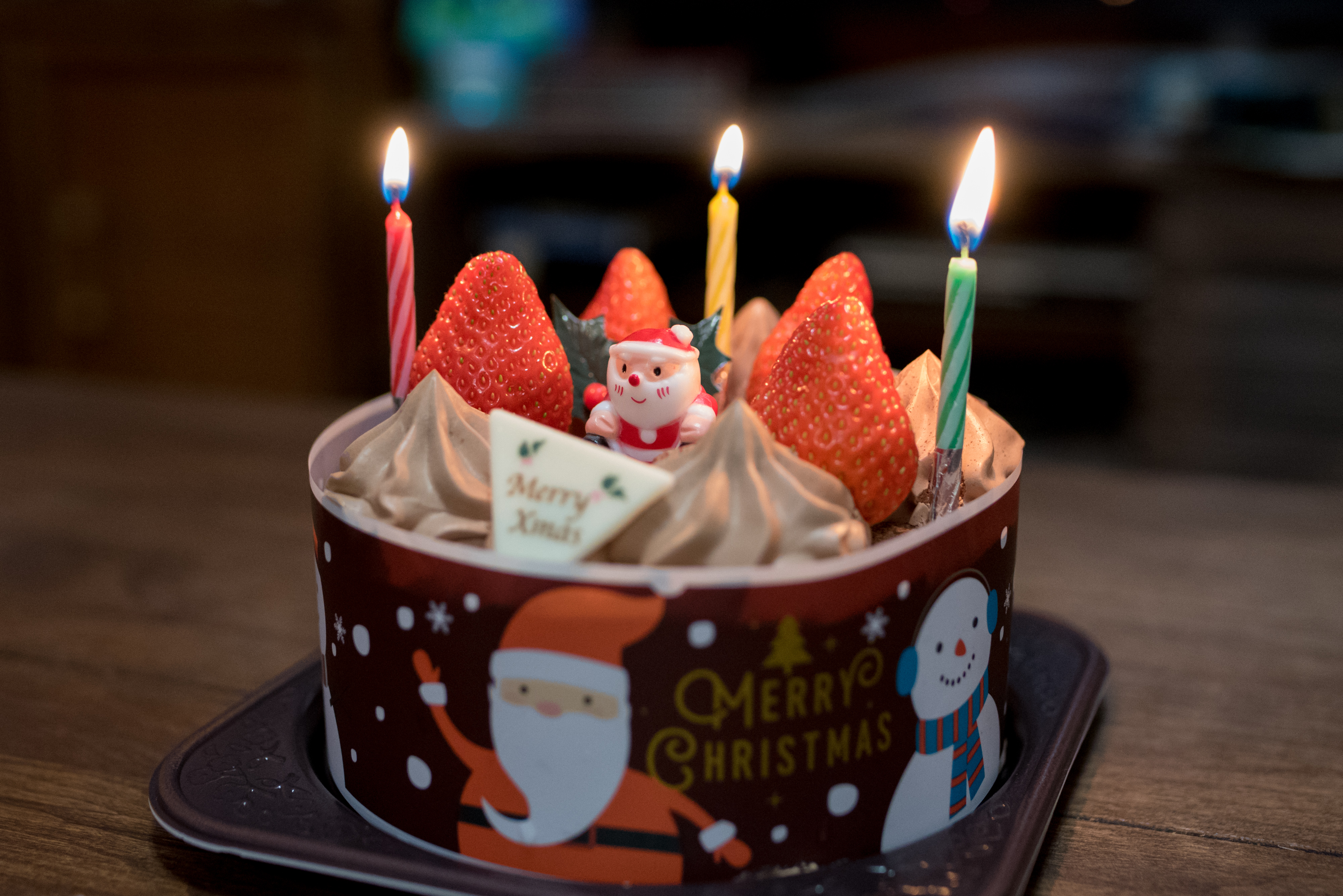 A mini Christmas cake in December